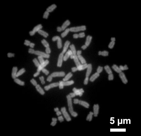 Metaphase chromosomes from a female human lymphocyte, stained with Chromomycin A3, fluorescence microscopy. Made with: Colcemid treatment, hypotonic shock, methanol acetic acid fixation, dropping, air drying, staining.